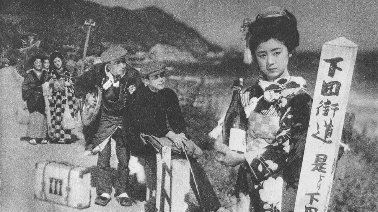 Tokuji Kobayashi, Den Obinata and Kinuyo Tanaka in Izu no odoriko (1933)